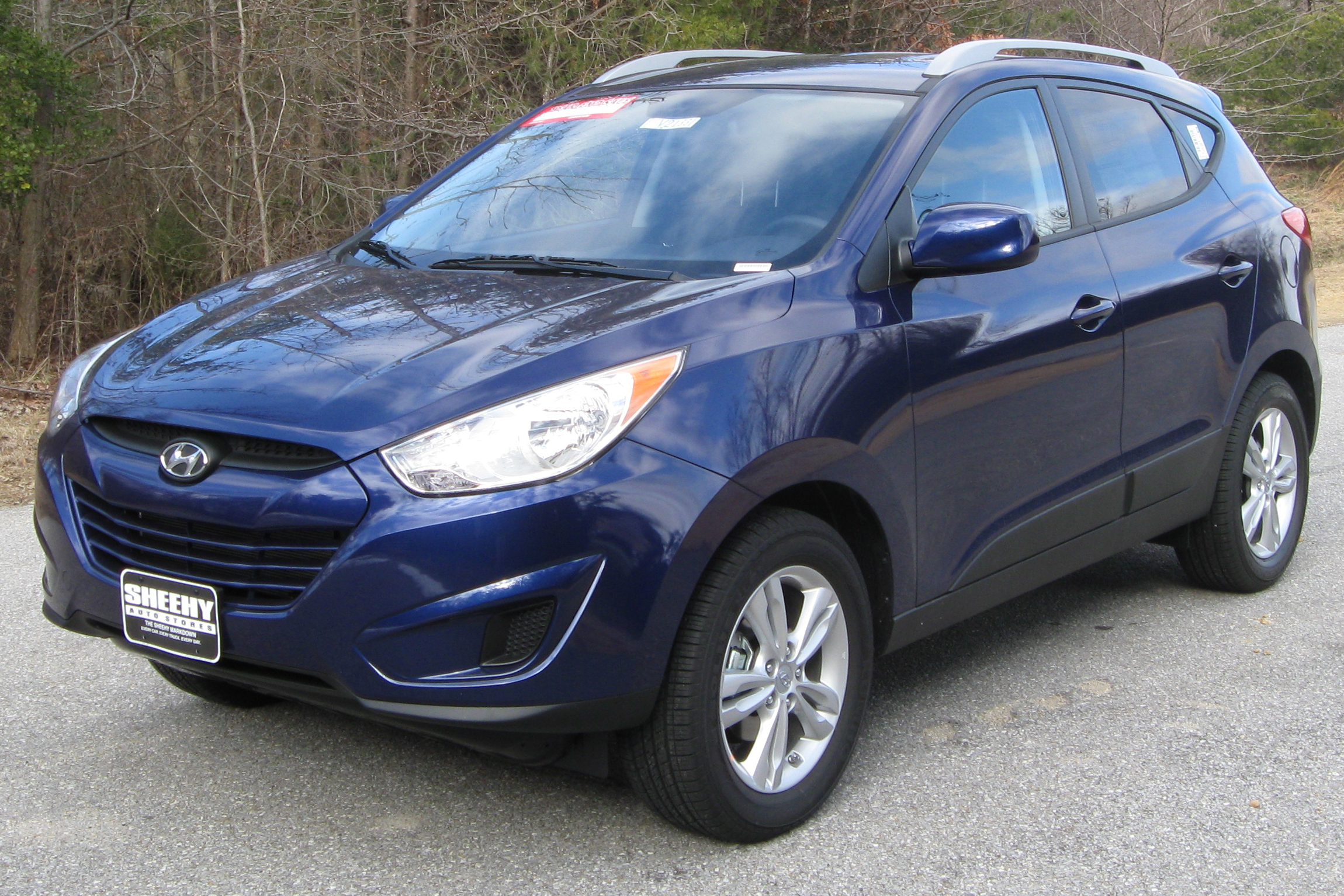 2010 Hyundai Tucson GLS photographed in Waldorf, Maryland, USA.